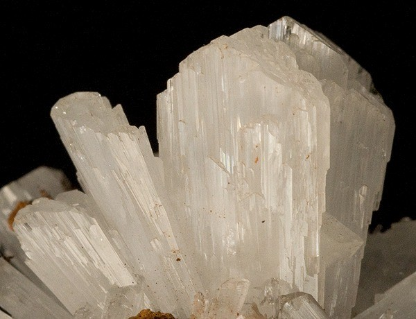 Hemimorphite Locality: Ojuela Mine, Mapimí, Municipio de Mapimí, Durango, Mexico (Locality at ) Size: 2.9 x 2.1 x 2.0 cm. A very fine, complete all-around and pristine spray of lustrous, glassy hemimorphite blades from the Mina Ojuela of Mexico. A classic specimen of the species and locality. Ex. Jaime Bird Collection.